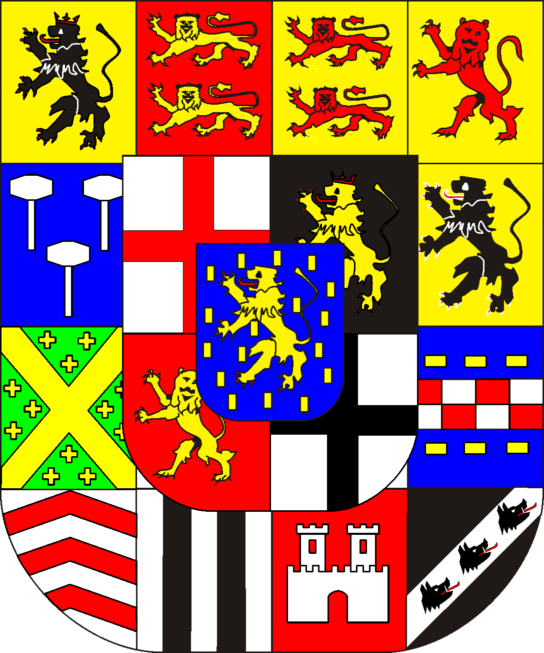 coats of arms of the duchy of Nassau (great) 1: lordship of Mahlberg; 2: county of Diez; 3: county of Weilnau; 4: county of Katzenelnbogen; 5: bourgraviat of Hammerstein; 8: county of Königstein; 9: lorsdship of Mehrenberg; 12: lordship of Limburg (Lahn); 13: lordship of Idstein; 14: county of Wittgenstein; 15: lordship of Homburg; 16: lordship of Freusberg; middle: 6: electorate of Trier; 7: electorate of the Palatinat; 9: county of Sayn; 10: electorate of Cologne; over all: duchy of Nassau